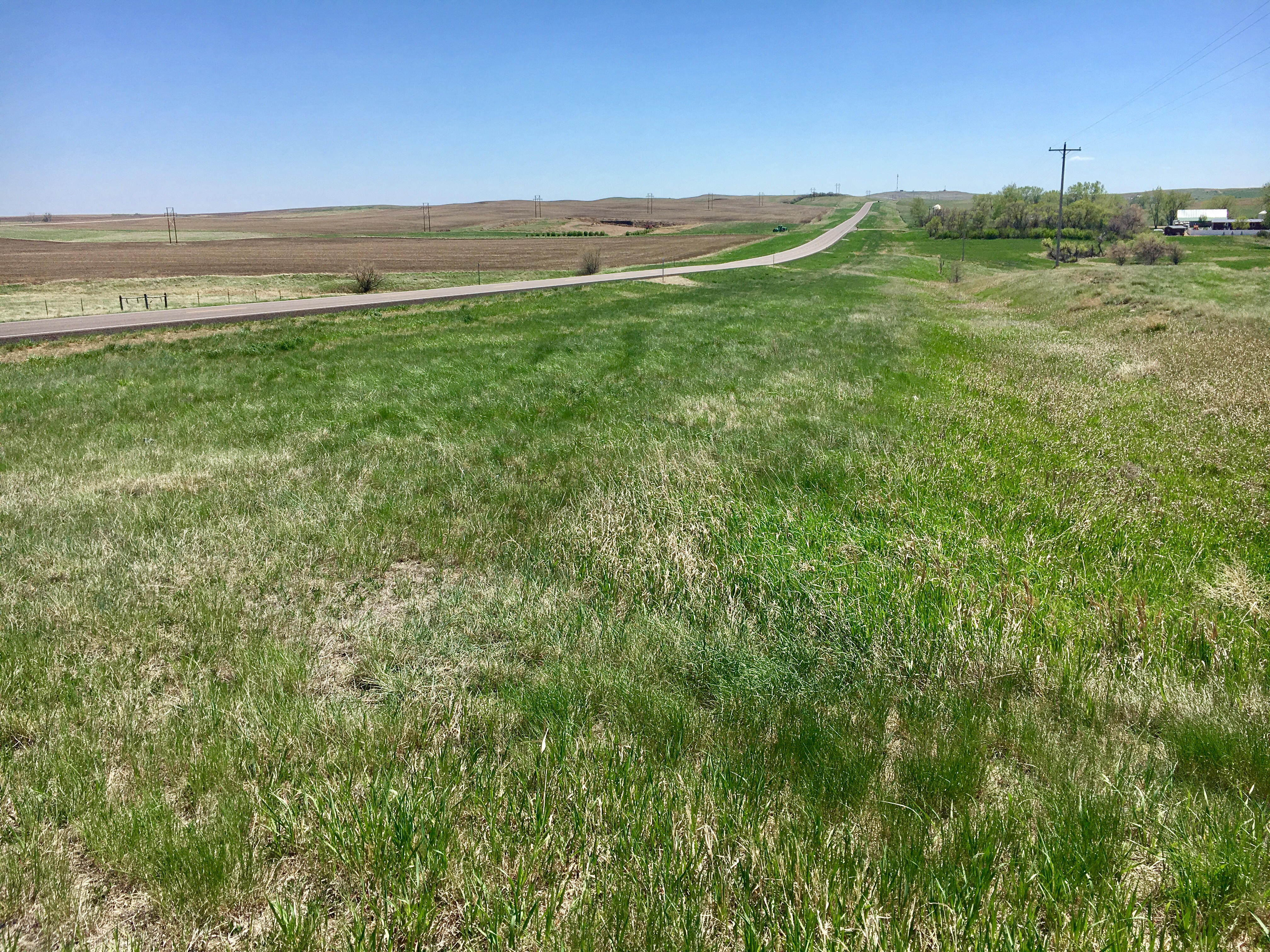 Typical scenery of rural McCone County, MT as seen looking south along MT Highway 13 toward Vida, MT.